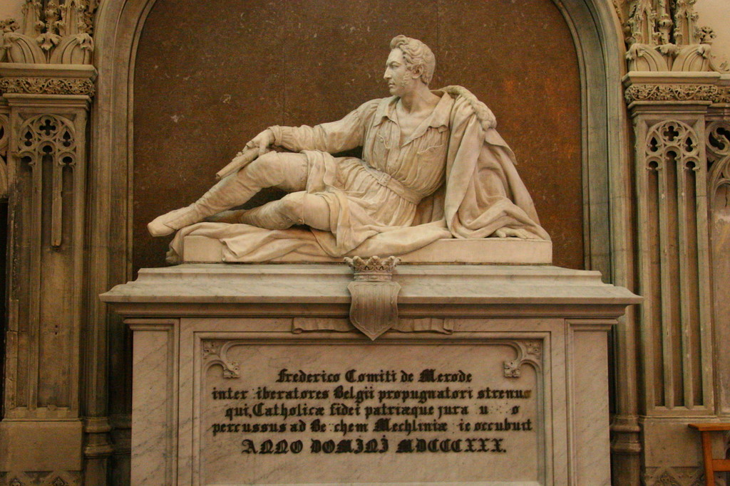 The tomb of Frédéric de Mérode, Belgian freedom fighter, who died in 1830 after rebelling against the forces of United Kingdom of the Netherlands in Bruxelles. Work of Guillaume Geefs